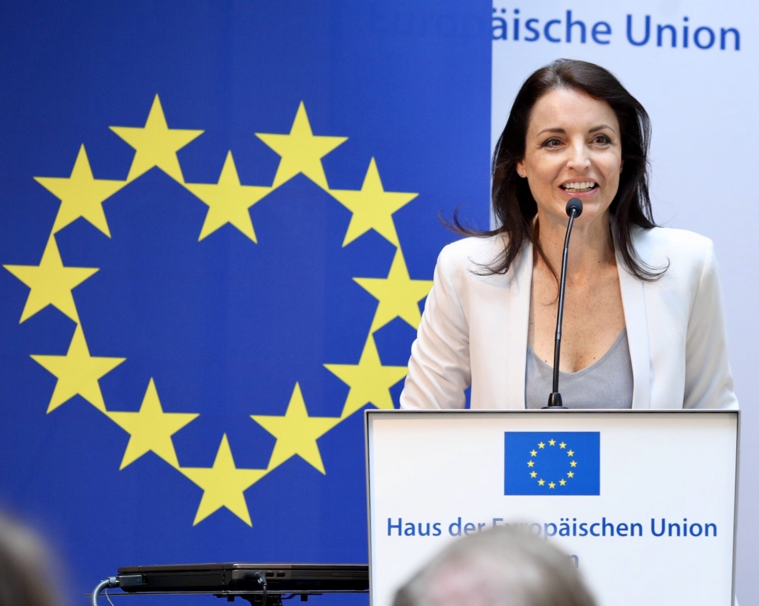 Dr. Nana Walzer at the House of the European Union Vienna 12.05.2017 at the event "Europa: Der Mensch im Zentrum, SYMPOSIUM zur aktiven Gestaltung Europas".